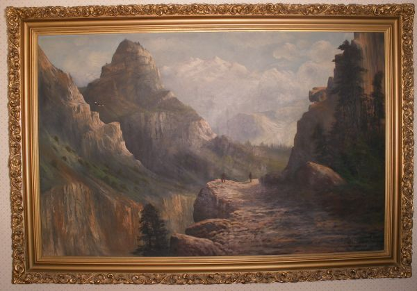 Hetch Hetchy Little Arroyo by Joseph John Englehart signed C.N. Doughty (Cole)